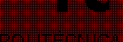 Zoom of red component of demosaicing process